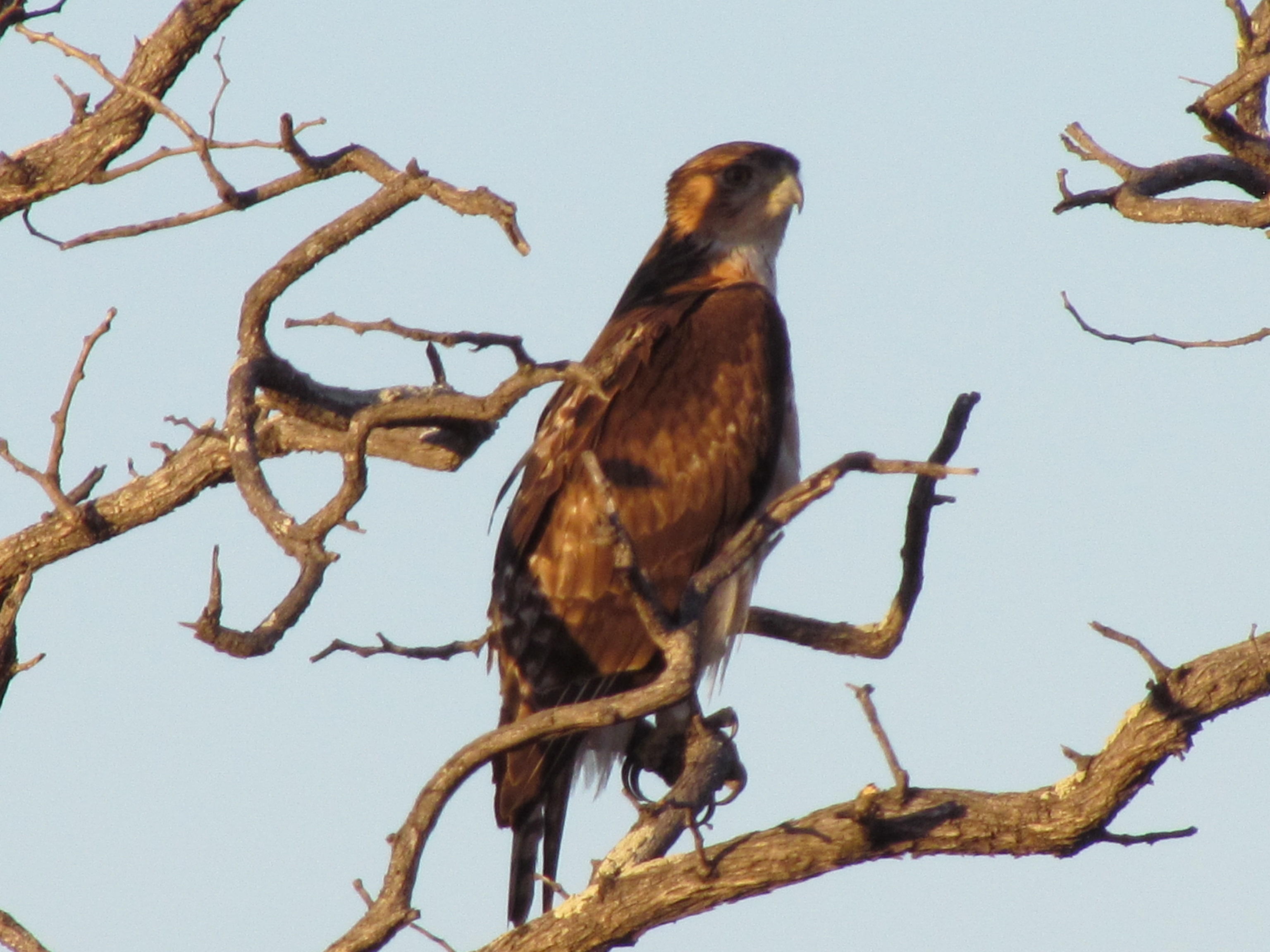 An African Hawk-eagleAfrikaans: Grootjagarend